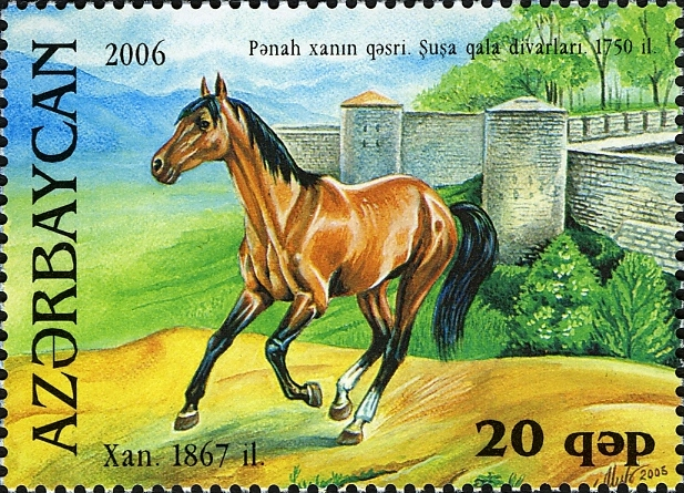 Stamp of Azerbaijan